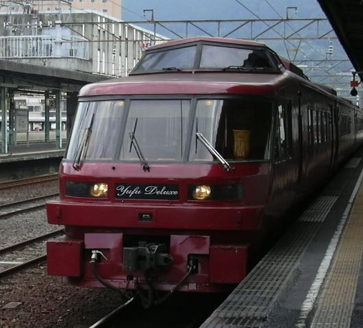 JR Kyushu KiHa183-1000 series "Yufu Deluxe" DMU at Beppu Station, 20 September 2004